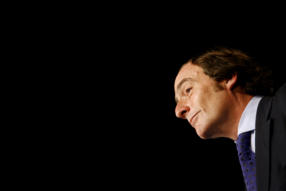 Paulo Portas in 23º Congress of CDS-PP.